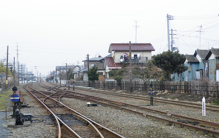 Ishinomaki ko station of Senseki line.